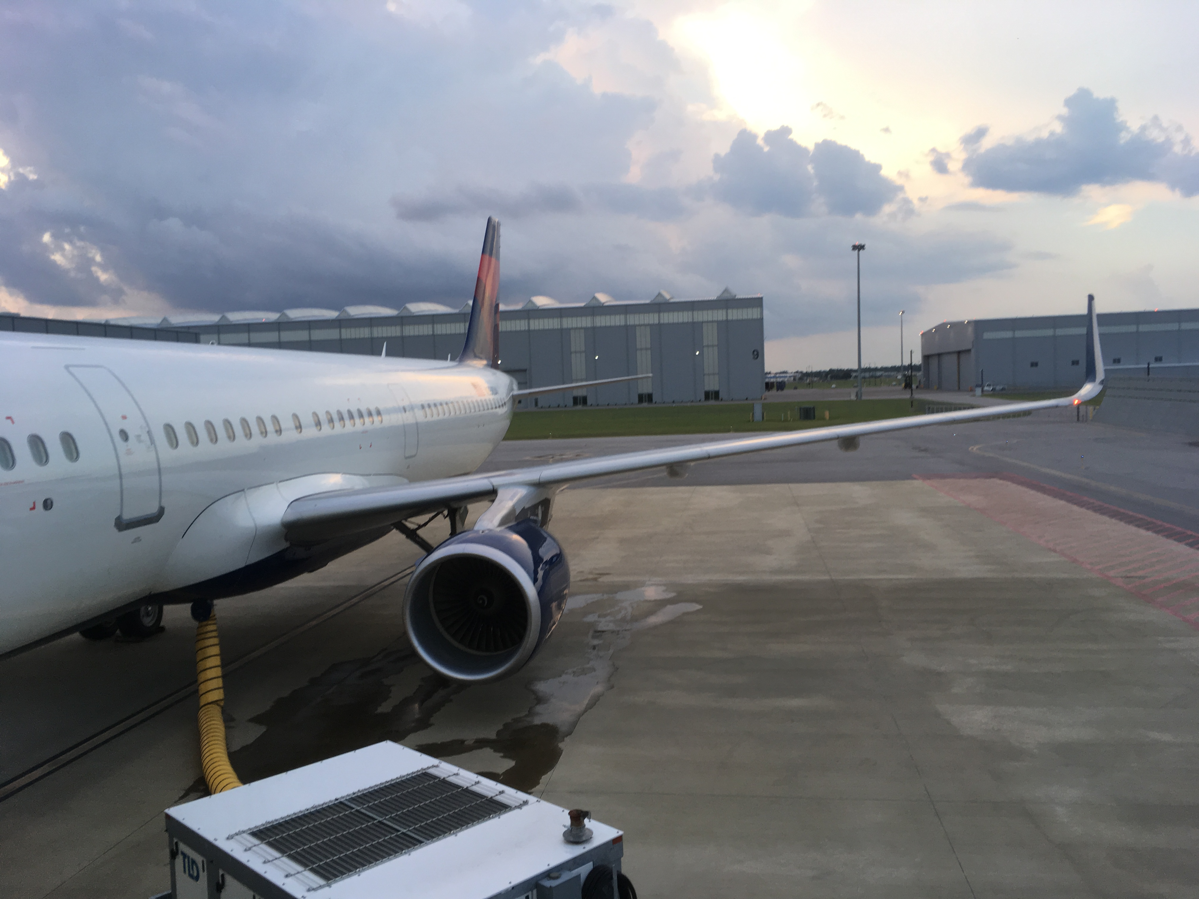 Side view of newly manufactured Airbus A321 for Delta Air Lines on the ground at Airbus's Mobile plant (BFM) in early July 2018.